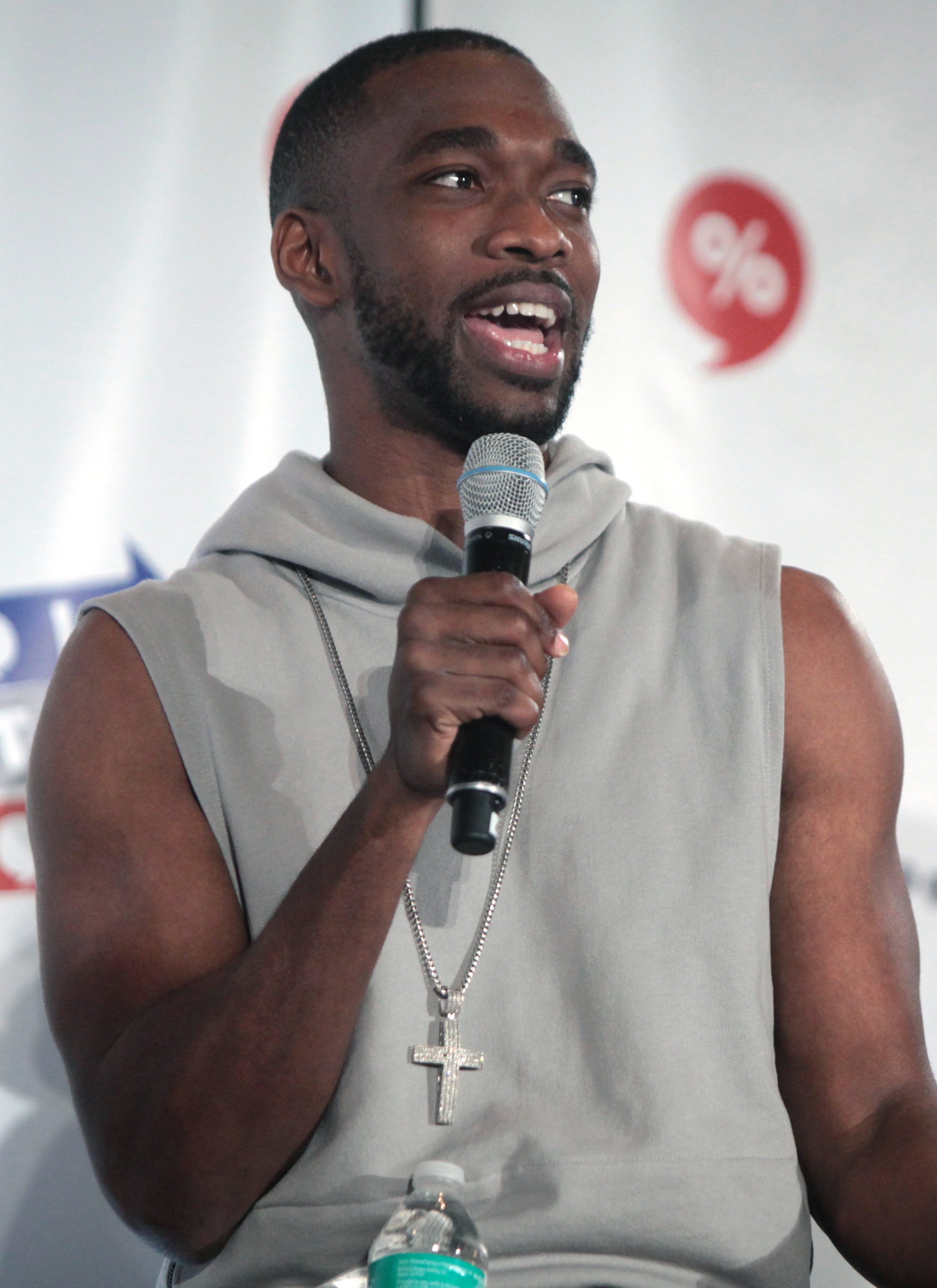 Jay Pharoah speaking at Politicon in Pasadena, California.